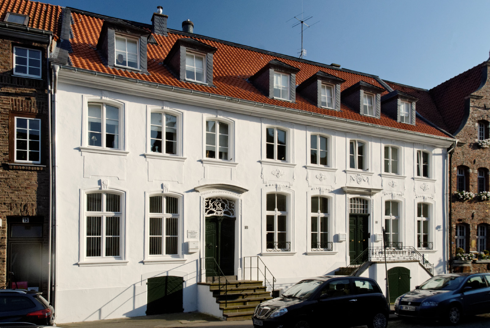 Houses Kaiserswerther Markt 11 and 13 in Düsseldorf-Kaiserswerth, Germany This is a photograph of an architectural monument.